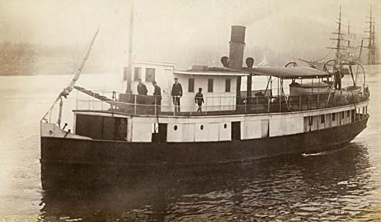 Comox, a steamboat based in Vancouver, BC, circa 1892.